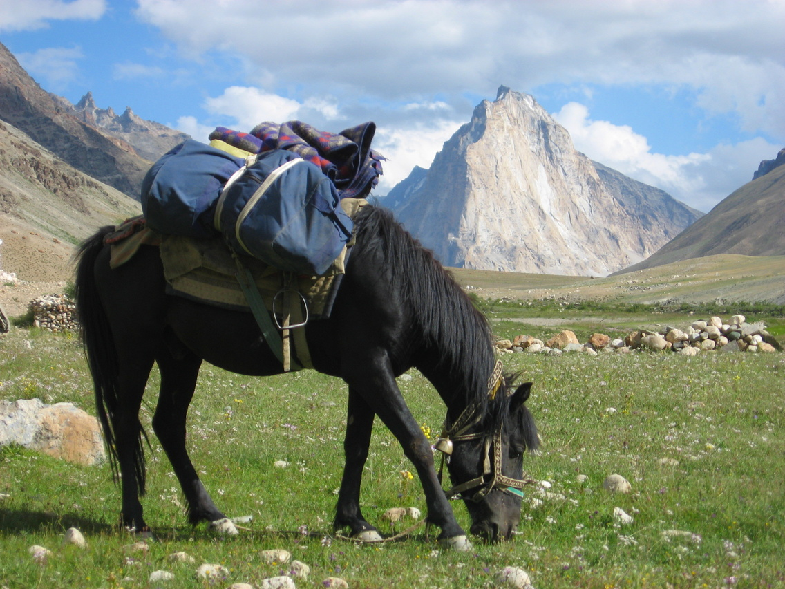 Gamburanjun peak, Kargyak valley, Zanskar, Jammu & Kashmir, India